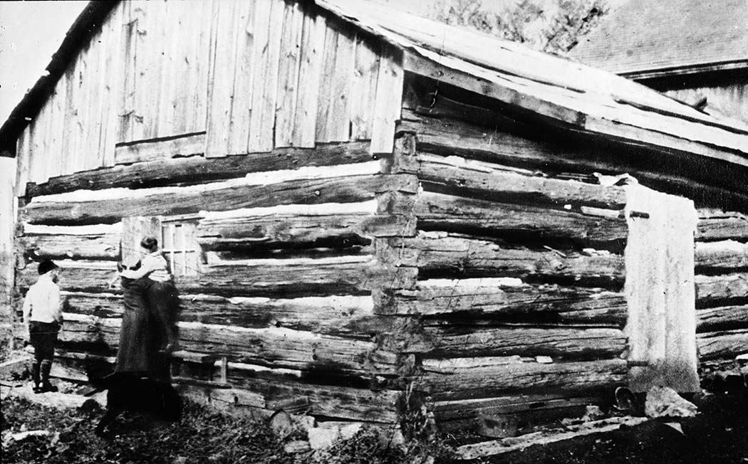 Log cabin school on Lansing Side Road (now Sheppard Avenue). Toronto, Canada.